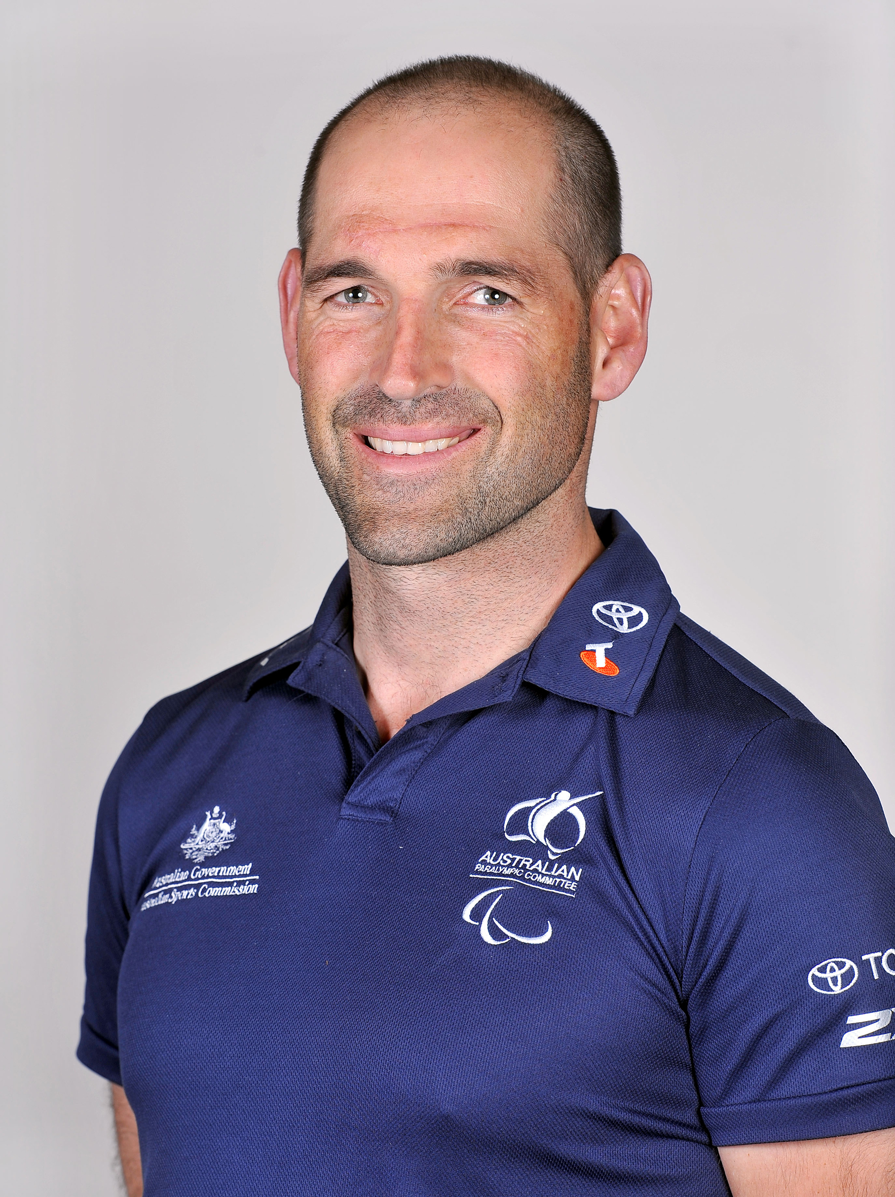 Portrait of Australian cyclist Kieran Modra, 2012 Australian Paralympic (shadow) Team athlete